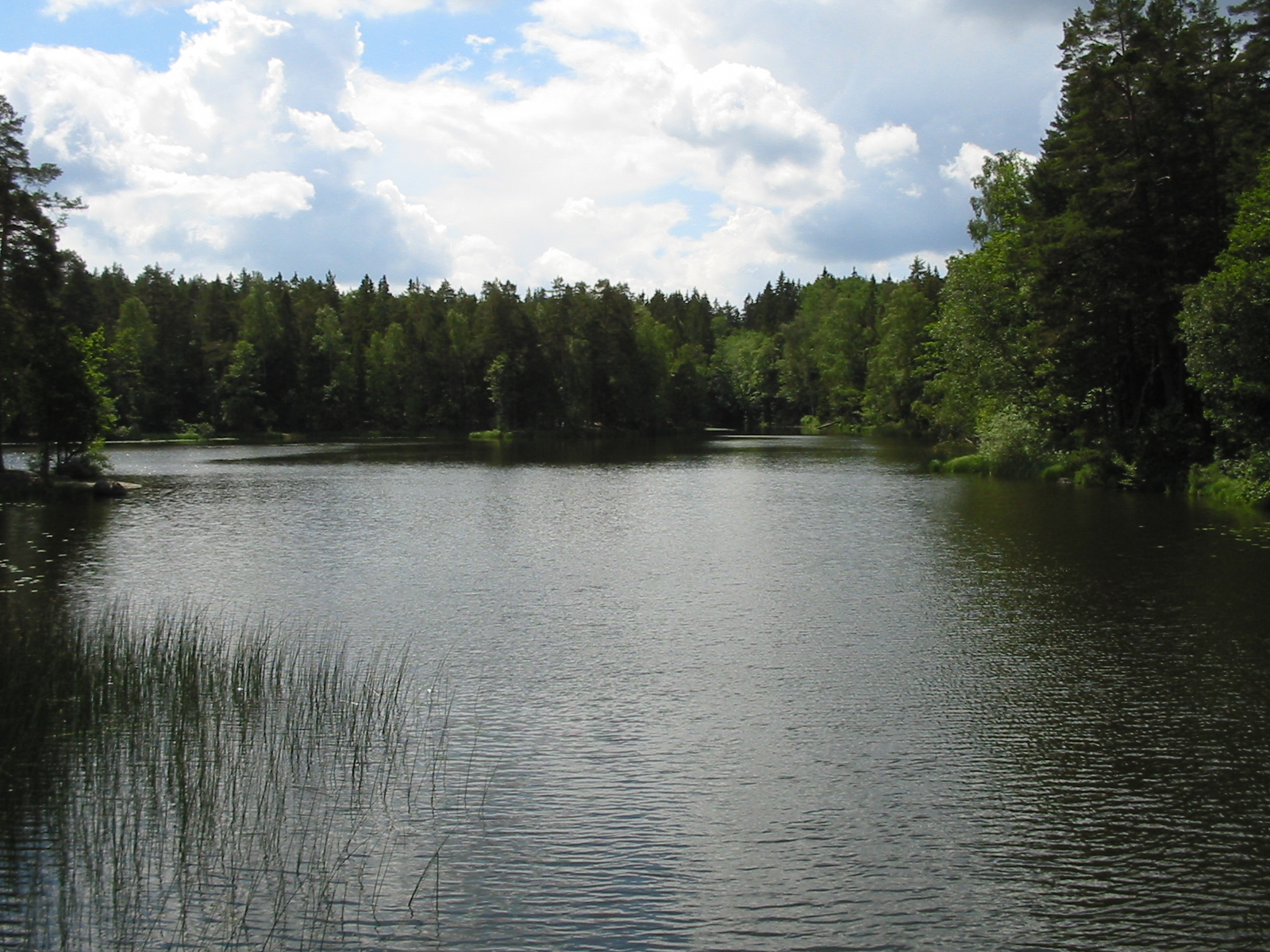 Lake Tyresö-Flaten, Tyresö. Lillsjön part of the lake, viewed south-west from the bridge separating the Lillsjön part from the lake proper.